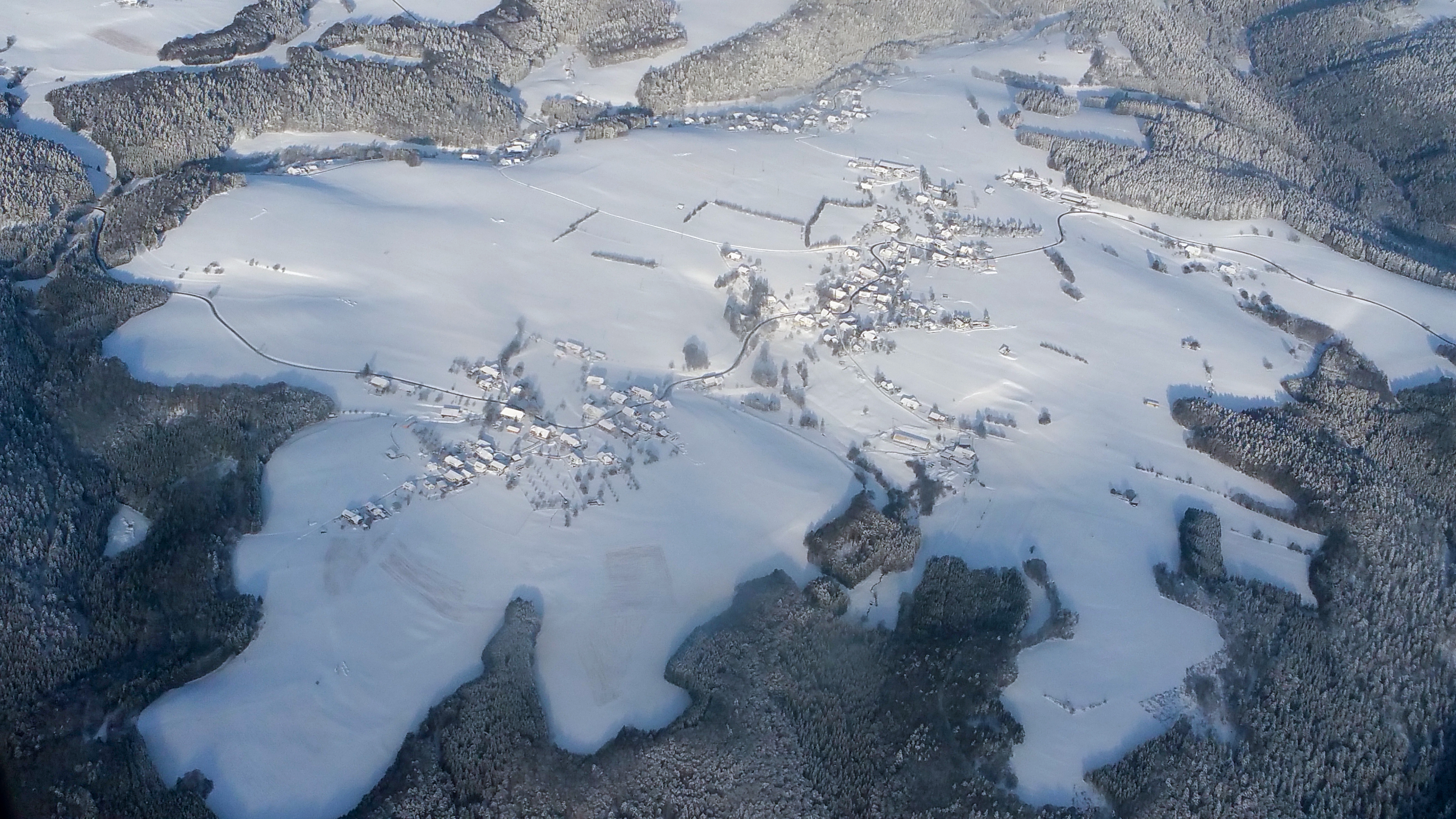 Germany, approach into ZRH across the Black Forest